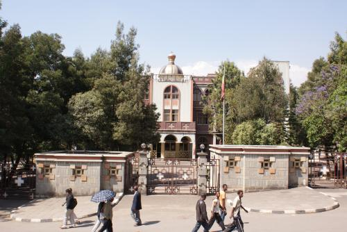 EOC siege Addis Abeba, Ethiopia